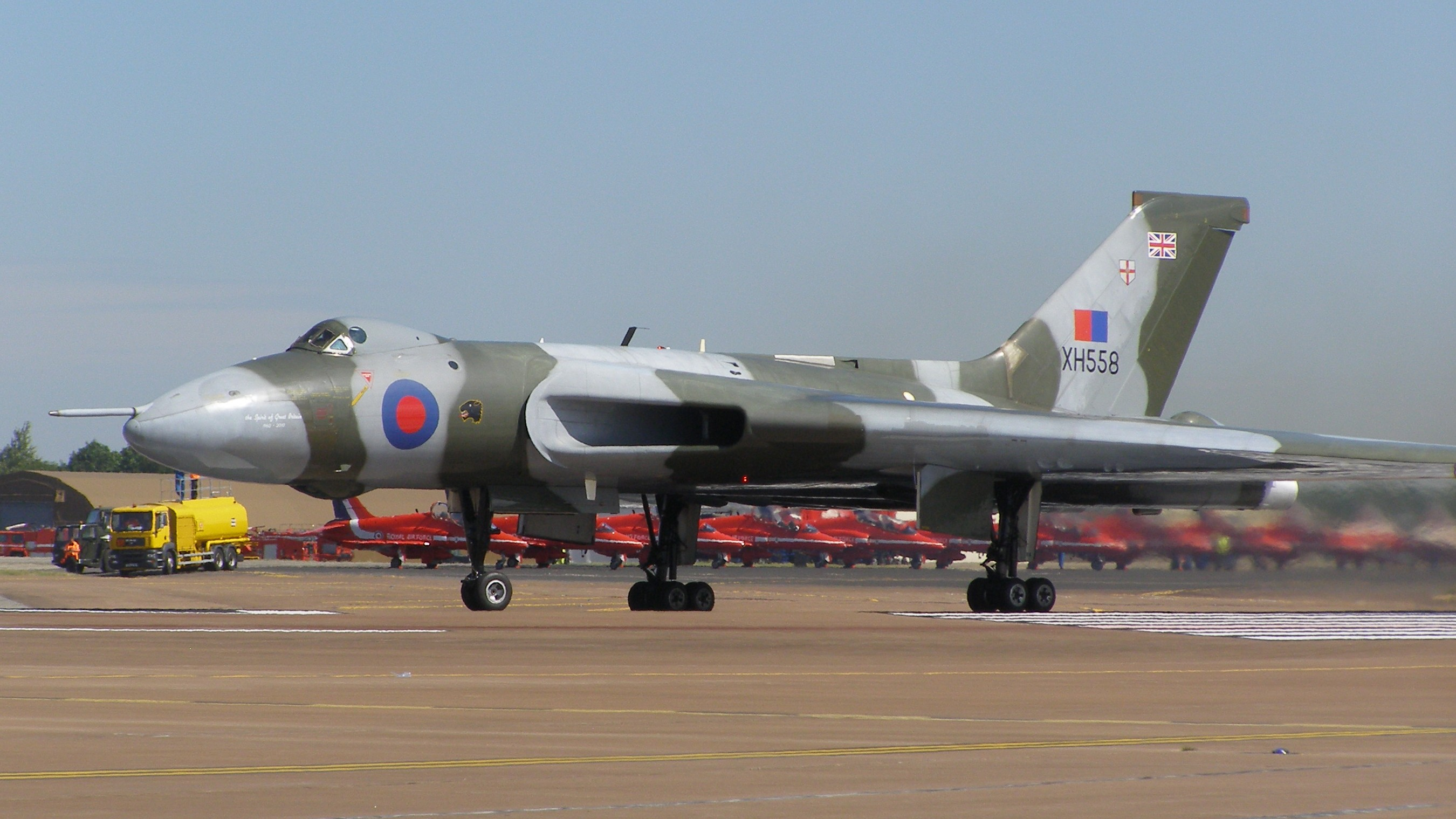 G-VLCN is a private Avro Vulcan, painted to represent in the markings and with the serial number XH558 of former owner the Royal Air Force. Lining up for departure from the Royal International Air Tattoo 2010 at RAF Fairford, England.